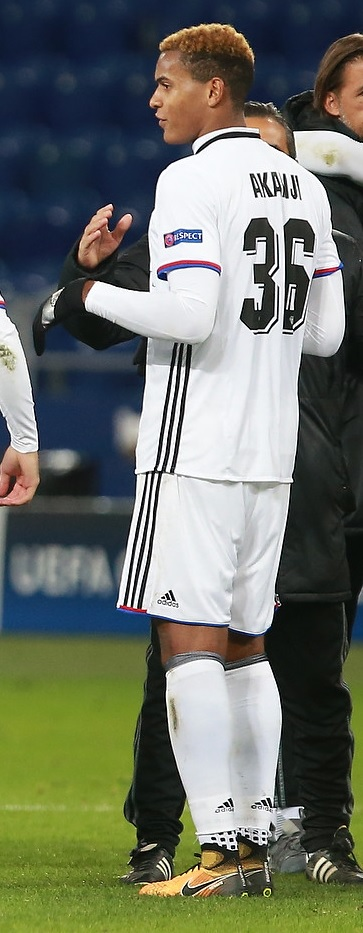 Manuel Akanji with Basel in a Champions League game against CSKA Moscow.